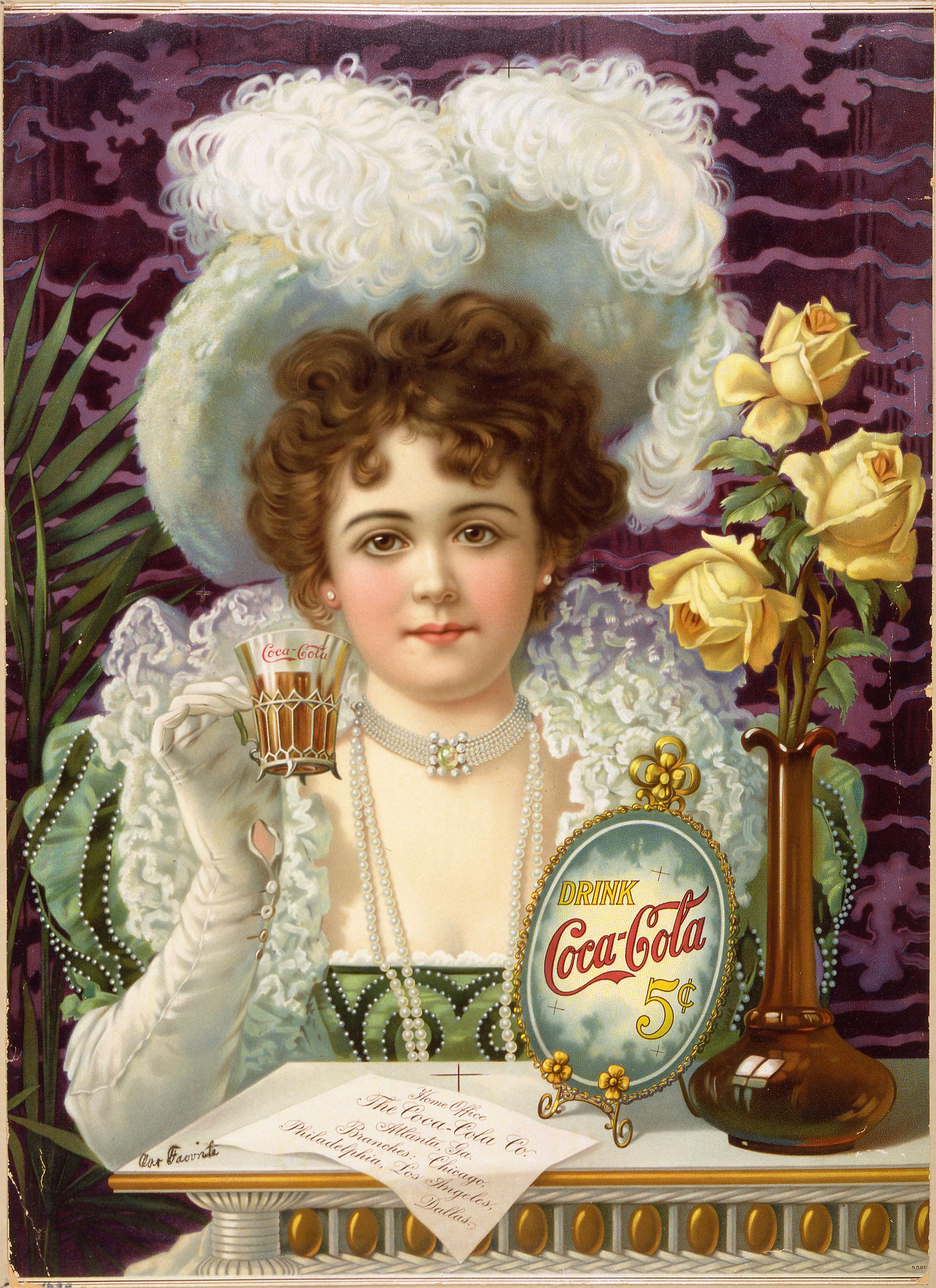 "Drink Coca-Cola 5¢", an 1890s advertising poster showing a woman in fancy clothes (partially vaguely influenced by 16th- and 17th-century styles) drinking Coke. The card on the table says "Home Office, The Coca-Cola Co. Atlanta Ga. Branches: Chicago, Philadelphia, Los Angeles, Dallas". Notice the cross-shaped color registration marks near the bottom center and top center (which presumably would have been removed for a production print run). Someone has crudely written on it at lower left (with an apparent leaking fountain pen) perhaps "Our Favourite".